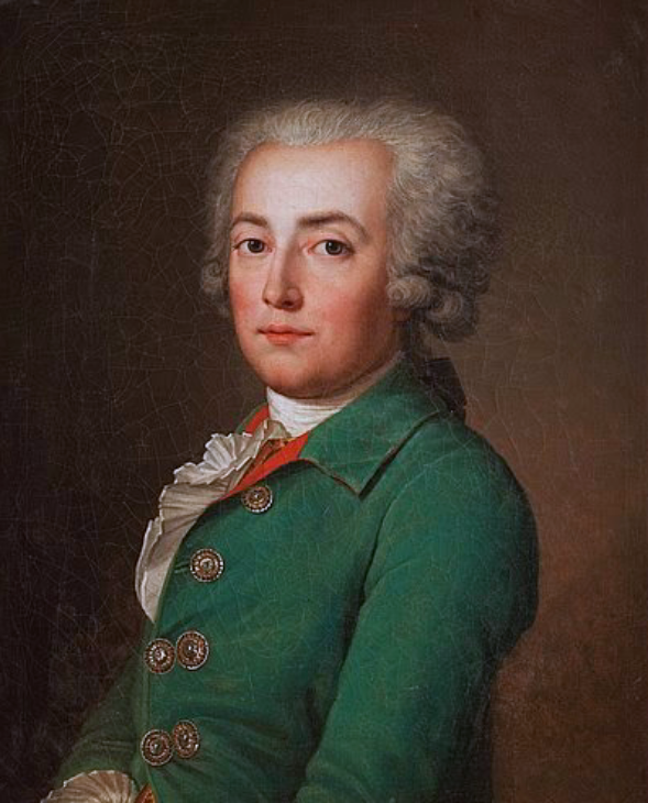 Portrait de Stanislas Marie Adélaïde, count of Clermont-Tonnerre, par Adolf Ulrik Wertmüller.